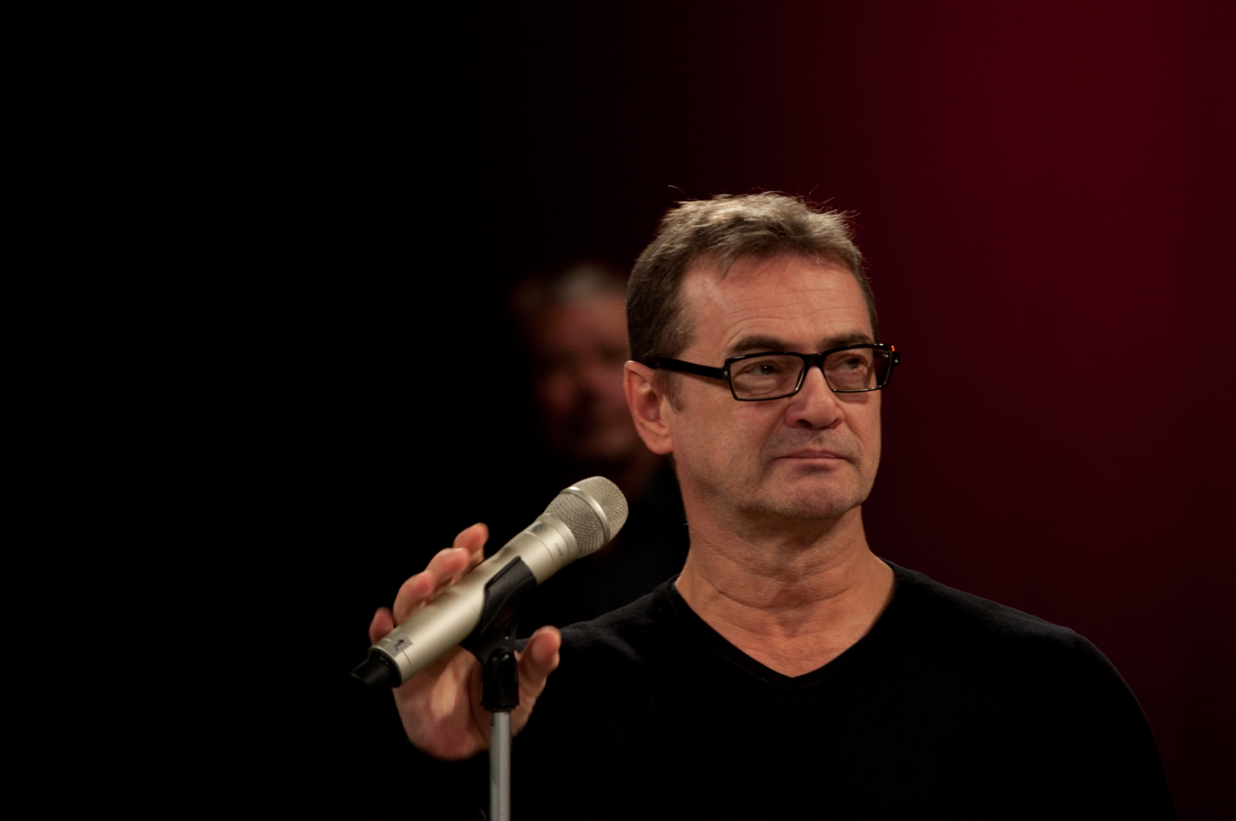 Christer Björkman 2009 at a press conference for Melodifestivalen 2010